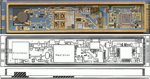 Transmit/receive module (T/R module). Used as a signal amplifier and phase controller for the airborne radar systems on Eurofighter aircraft.[1]